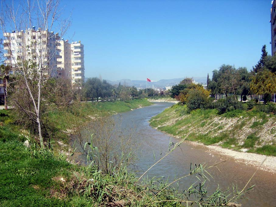 Müftü river